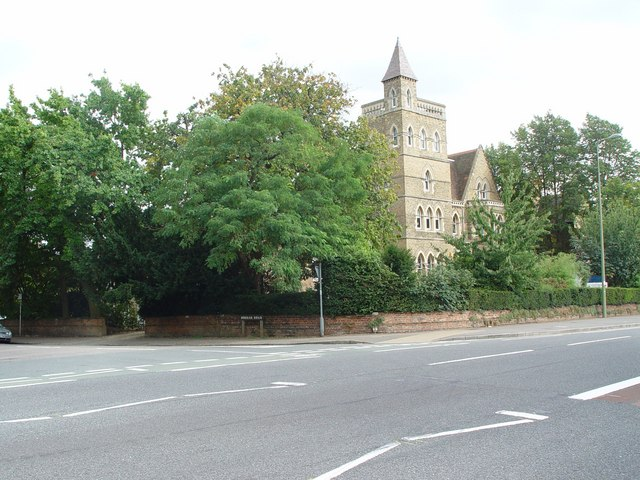 Administration Building Banbury Road in Oxford is graced by a number of delightful brick buildings, this is just one example.